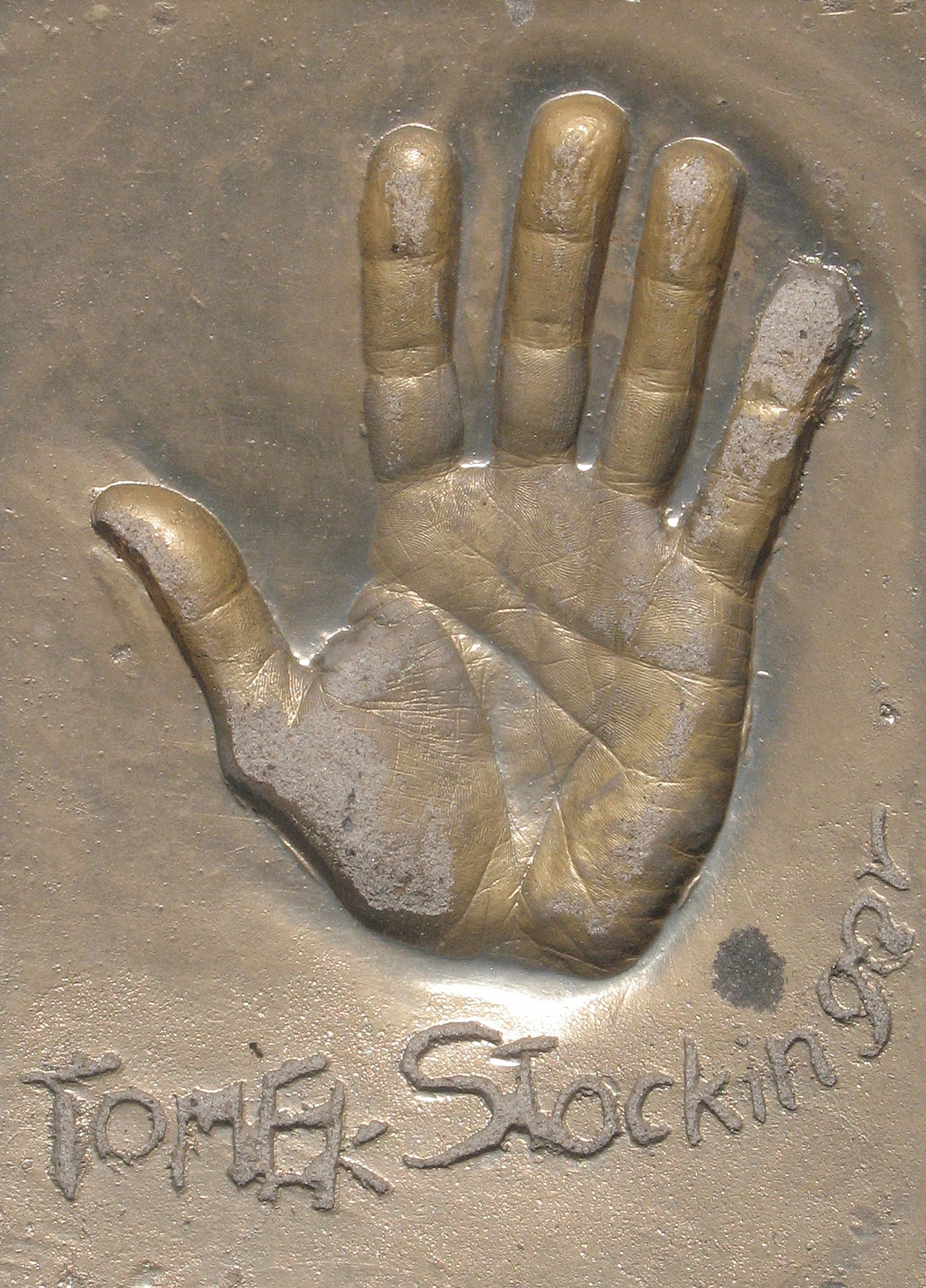 Tomasz Stockinger - handprint and signature in Międzyzdroje.